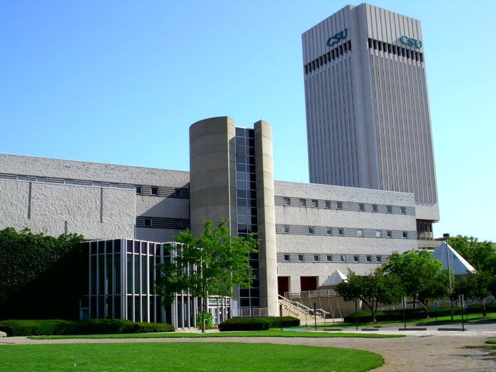 Picture of Cleveland State University Rhodes Tower and School of Communication